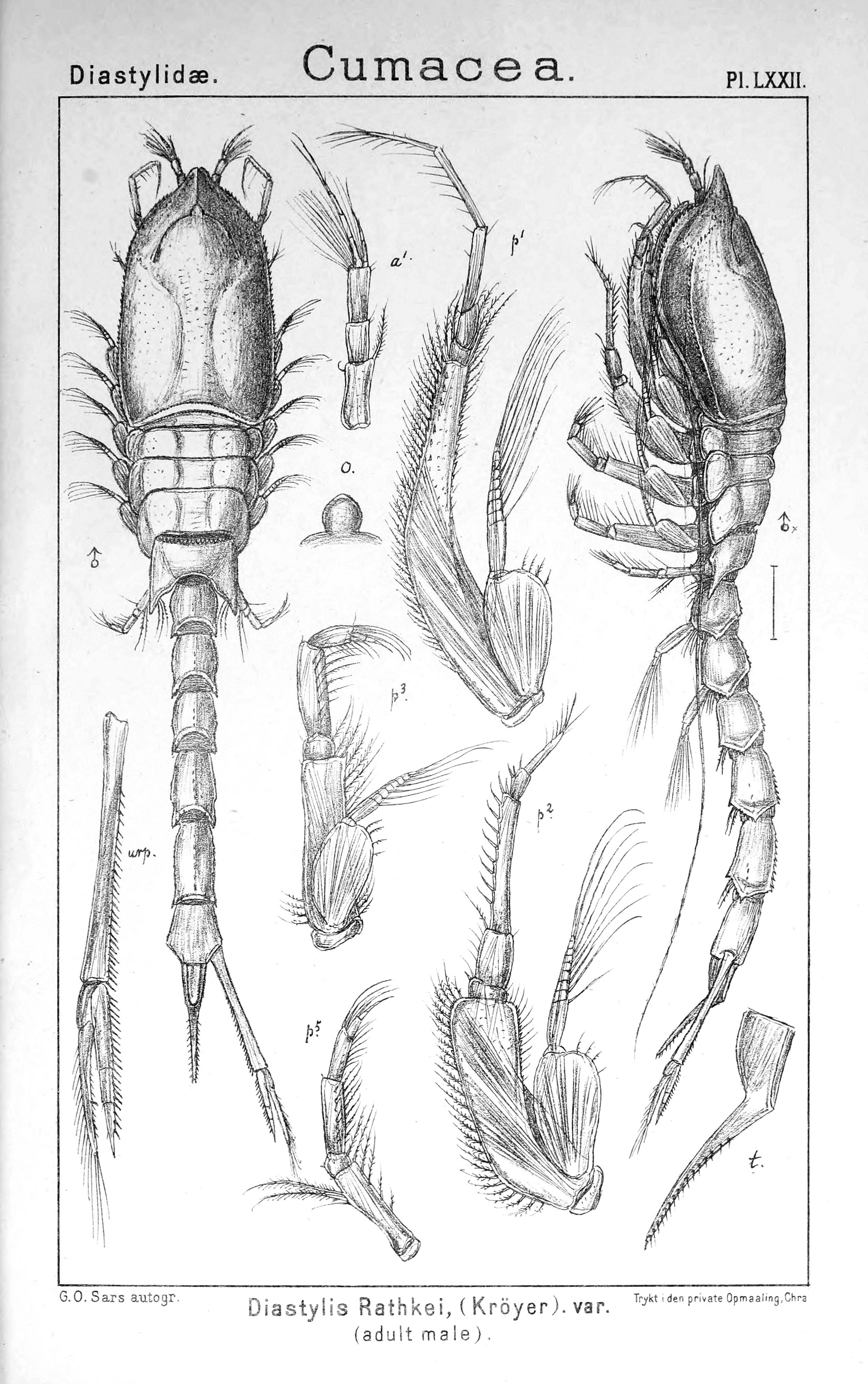 Plate LXXII from Sars, G. O., (1900). An account of the Crustacea of Norway: Cumacea, Bergen Museum.